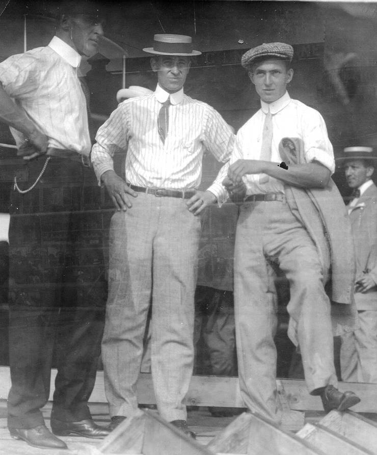 From left to right are: Frank T. Coffyn; A. Roy Knabenshue; and Walter Brookins outside the Atlantic City boardwalk shed for their Wright aircraft, between the July 8, 1910 and July 13, 1910. Source Smithsonian Frank T. Coffyn collection